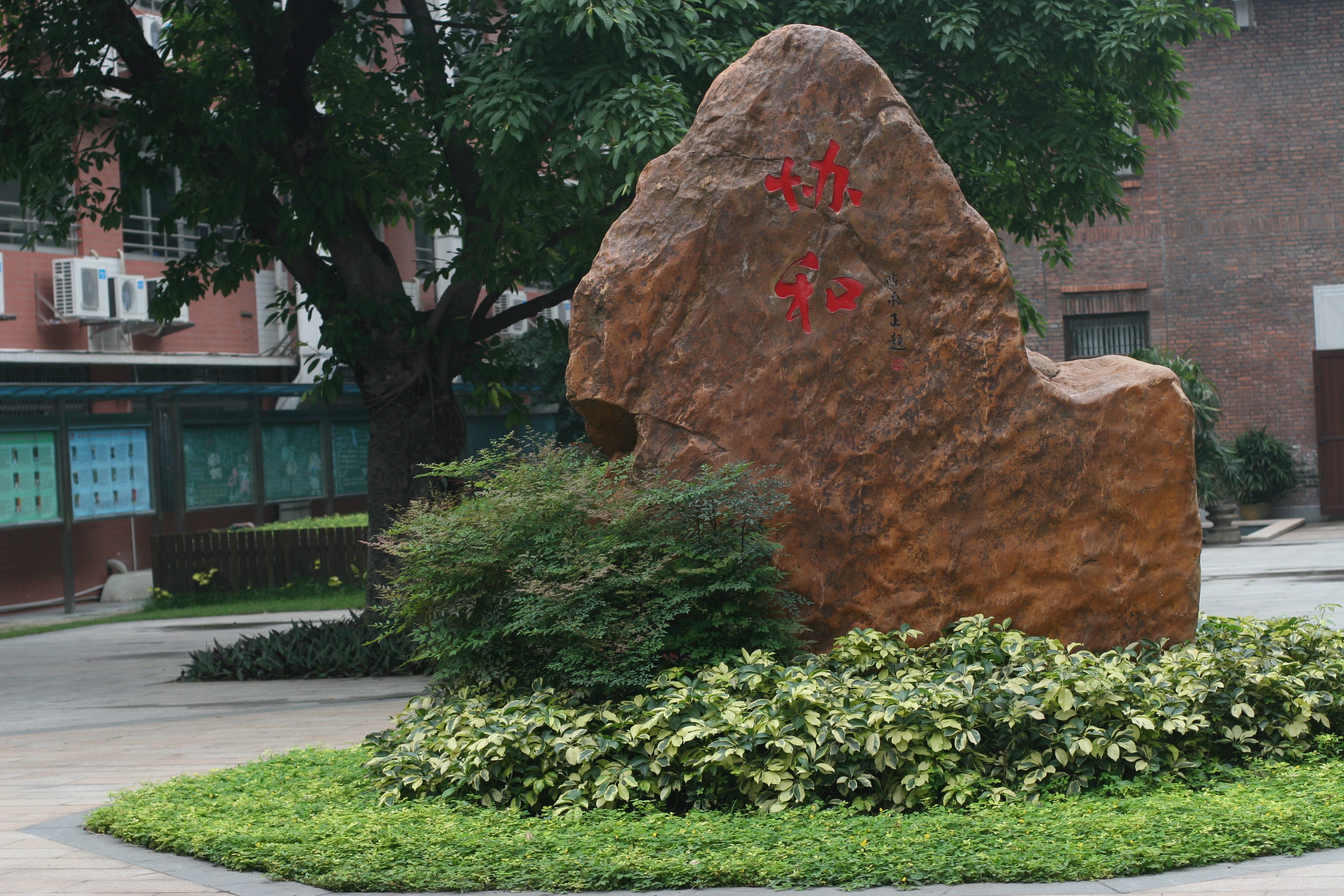 The Xiehe Stone in Guangzhou Xiehe High School